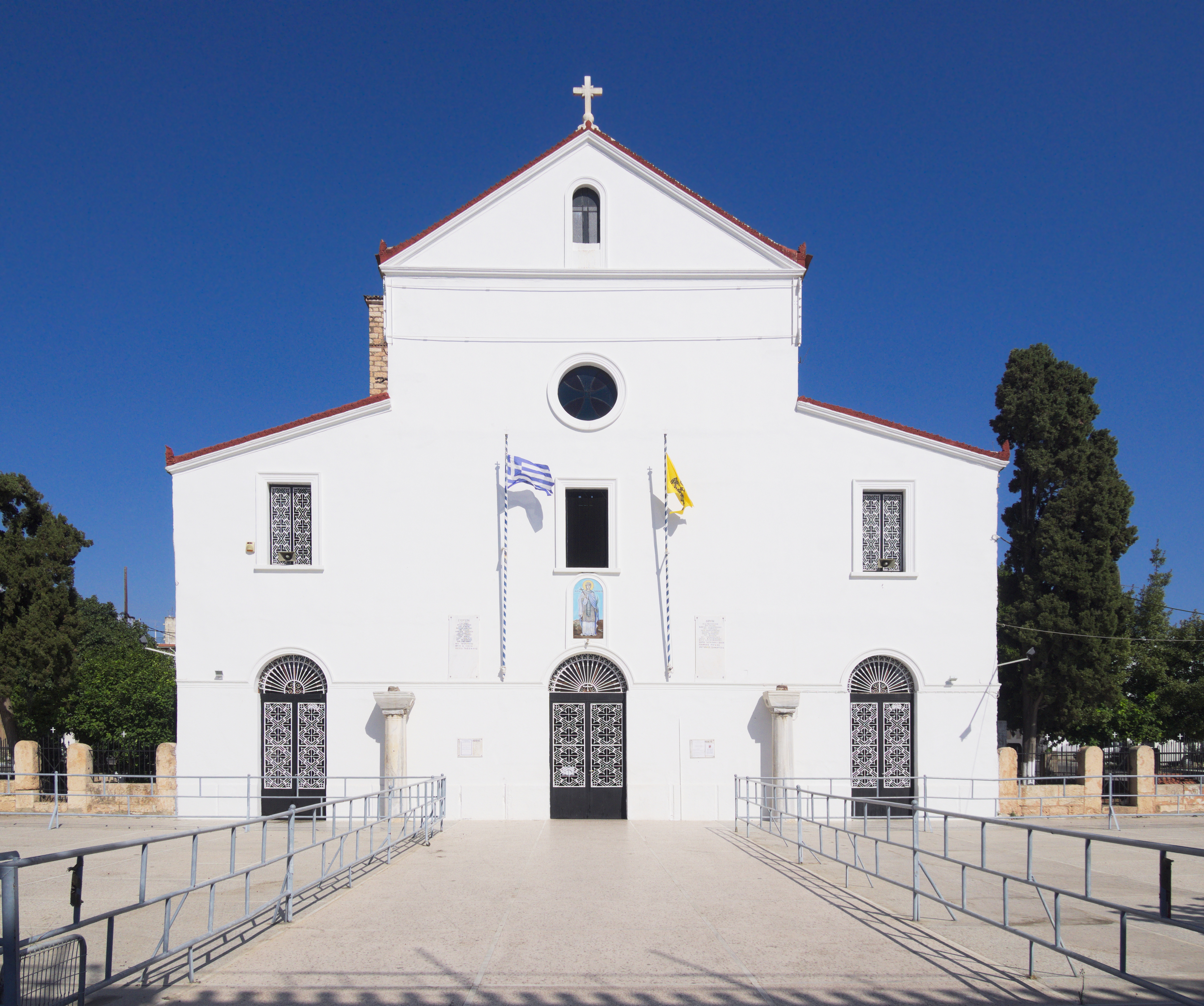 The west facade of the church of Agia Paraskevi, Chalkida. The current church was built in 13th century and the current form of the west facade dates from 1853.